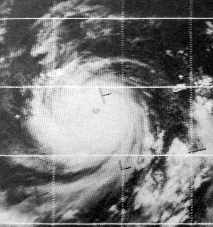 This ESSA-9 weather satellite image of Typhoon Elsie was taken on September 23, 1969 at 0413 UTC.